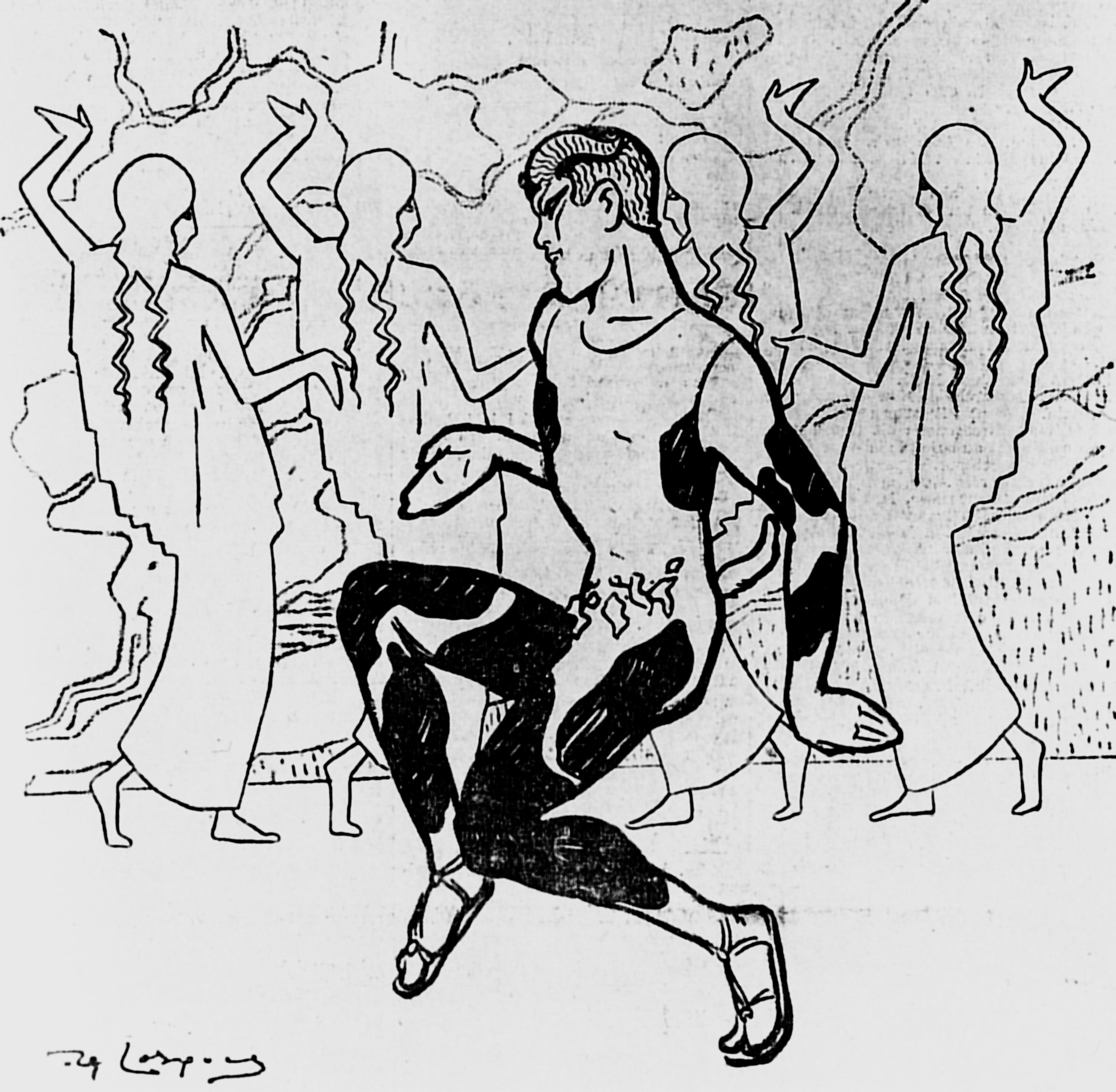 Cartoon of Vaslav Nijinsky dancing the Faun in ballet L'après-midi d'un faune which he choreographed, staged by the Ballet Russes in Paris 1912. Published in Le Figaro, 30 May 1912, which carried an editorial attacking the ballet as obscene.